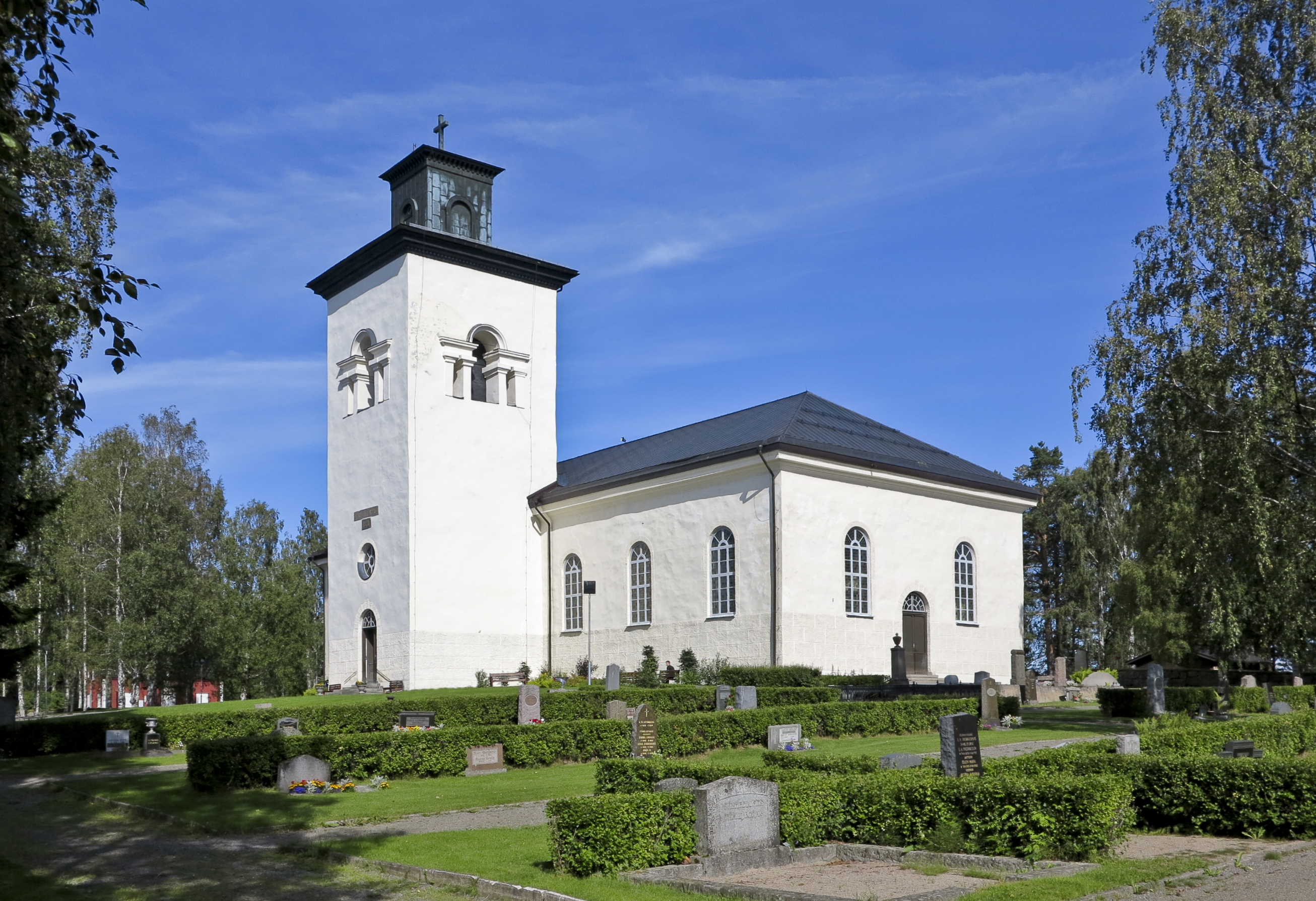 Överluleå church, Boden, Sweden. View